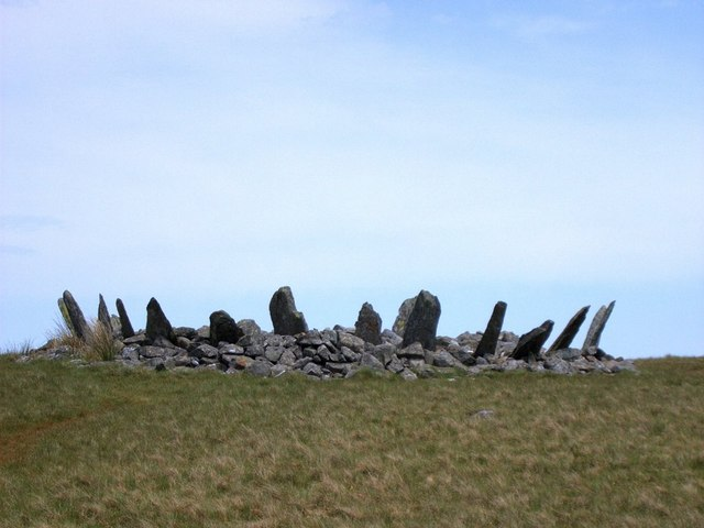 Bryn Cader Faner stone circle. No visitor centre, no car park, in fact no road in sight - just a stone circle in the middle of open moorland! The monument has been tampered with in the past but is now in a very good state. It is located on the northwestern slopes of the northern Rhinogydd. The surrounding land is rough grassland with scattered rocks, although some depressions are rather damp and boggy.